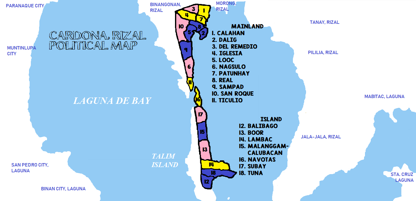 It shows the Barangays in Cardona, Rizal and the adjacent cities/municipalities in the area